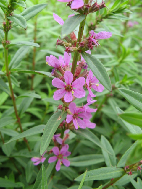 Lythrum anceps (Flower)